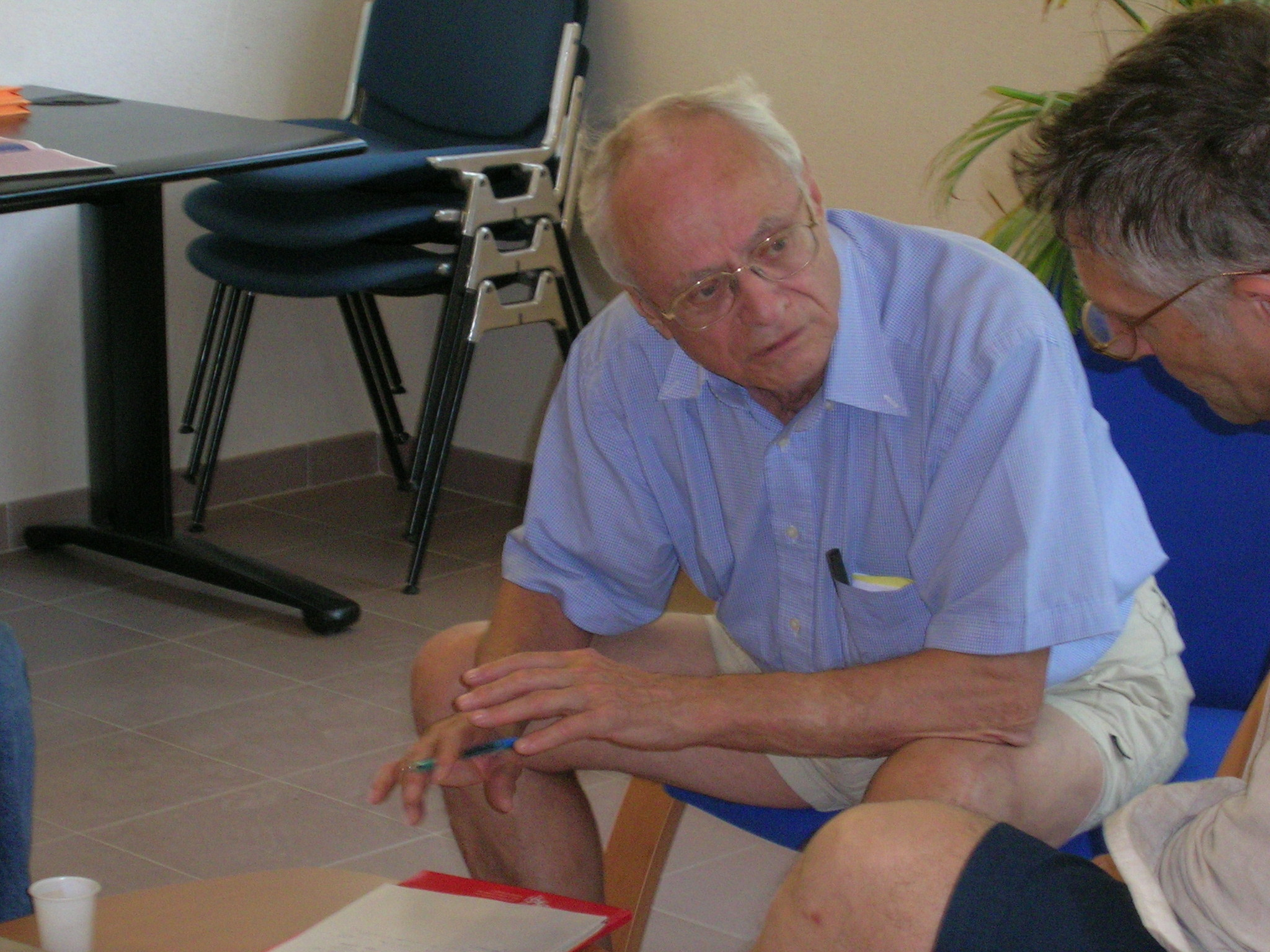 Photo of Jean-Pierre Serre taken the 19 July 2007 in the Summer School on Serre's Modularity Conjecture in Luminy